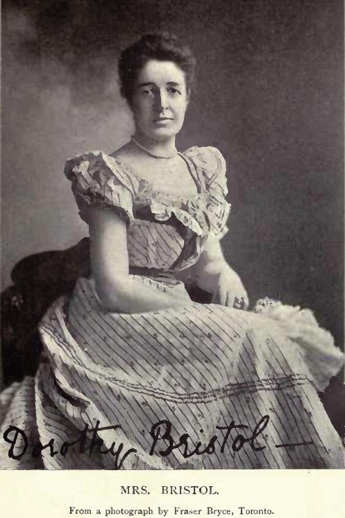 Mrs Dorothy Bristol by Fraser Bryce, Toronto